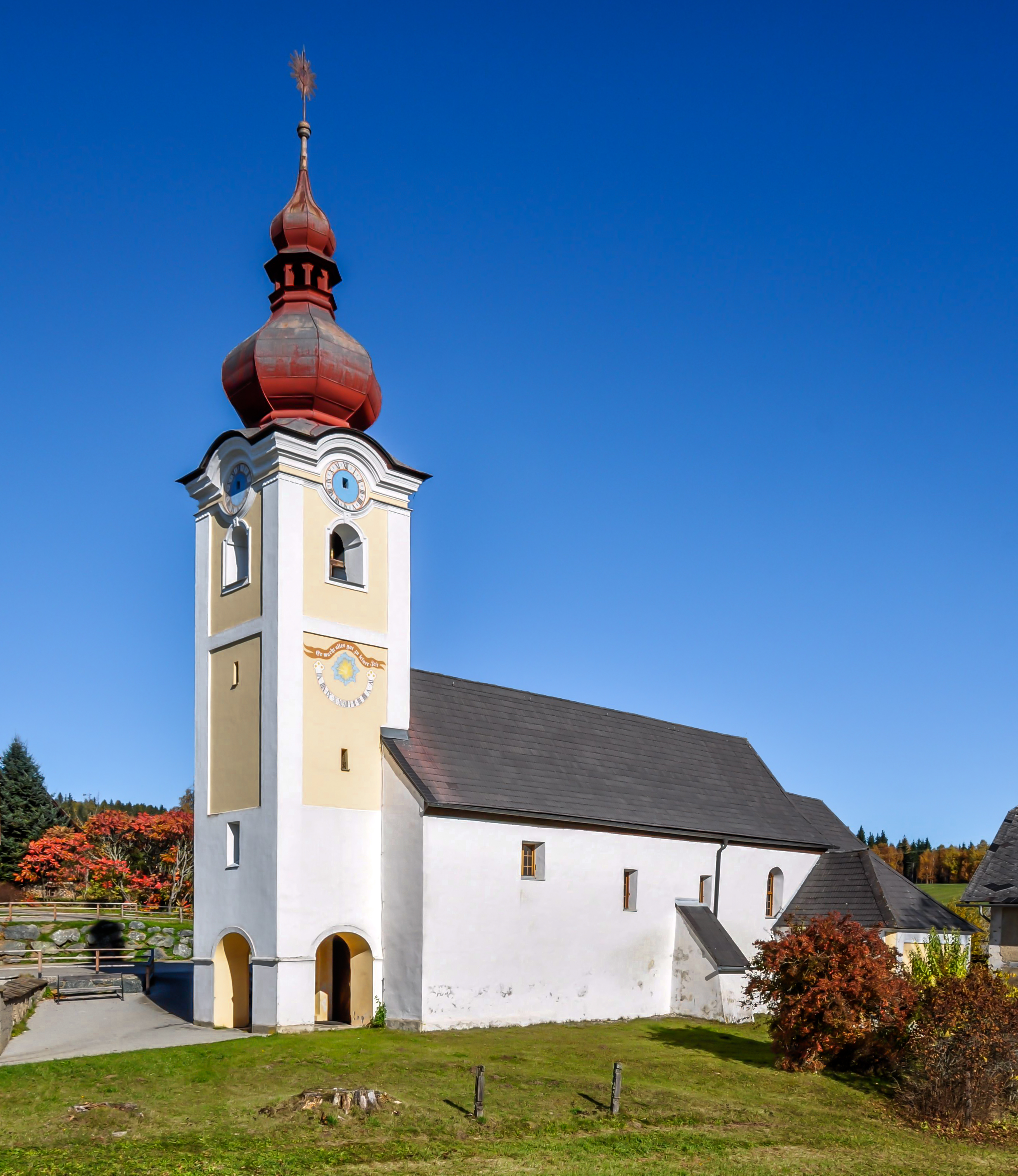 Parish church Saint James the Greater in Sankt Jakob #3, municipality Straßburg, district Sankt Veit, Carinthia, Austria, EU